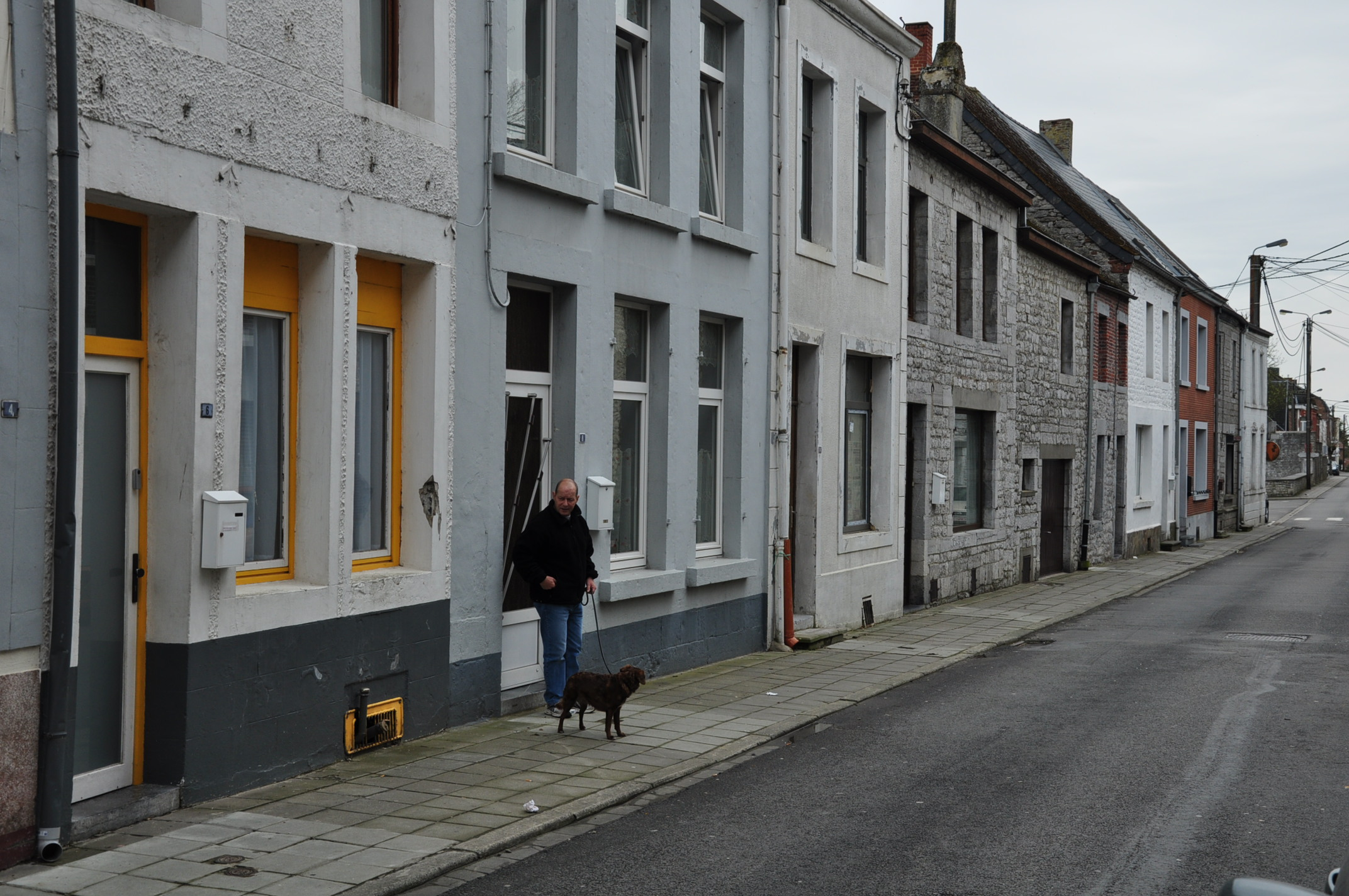 Rue du Moulin (Mill Street) in Philippeville, Belgium.